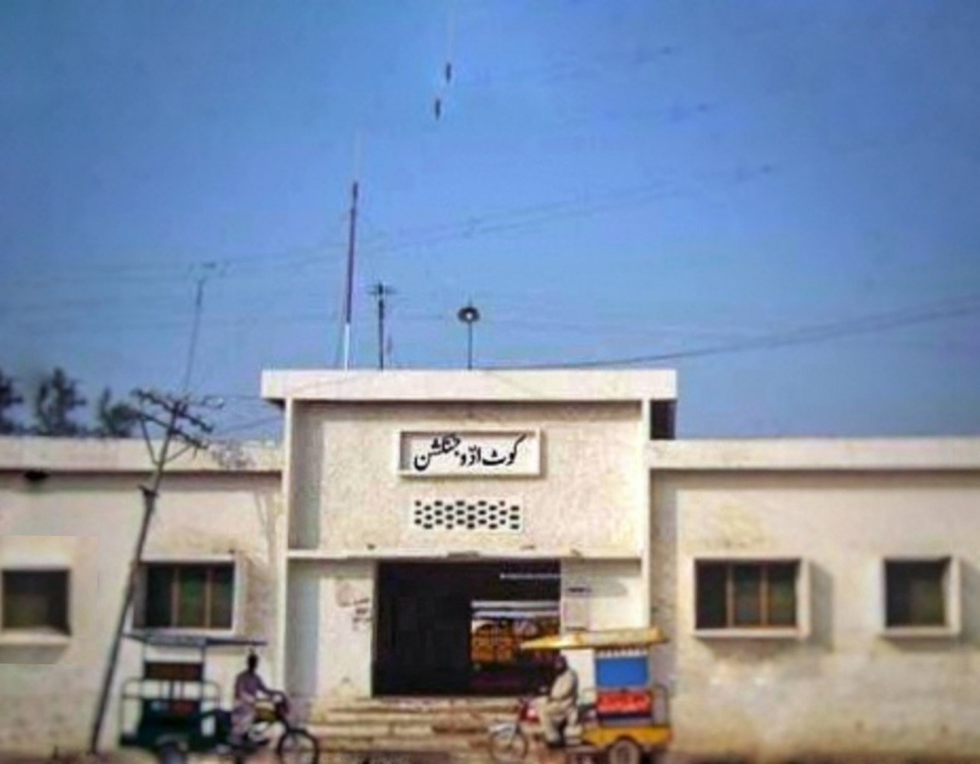 Photo of Kot Addu railway station.